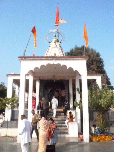 The entry gate of Mangalnath Temple in Ujjain, Madhya Pradesh, India.